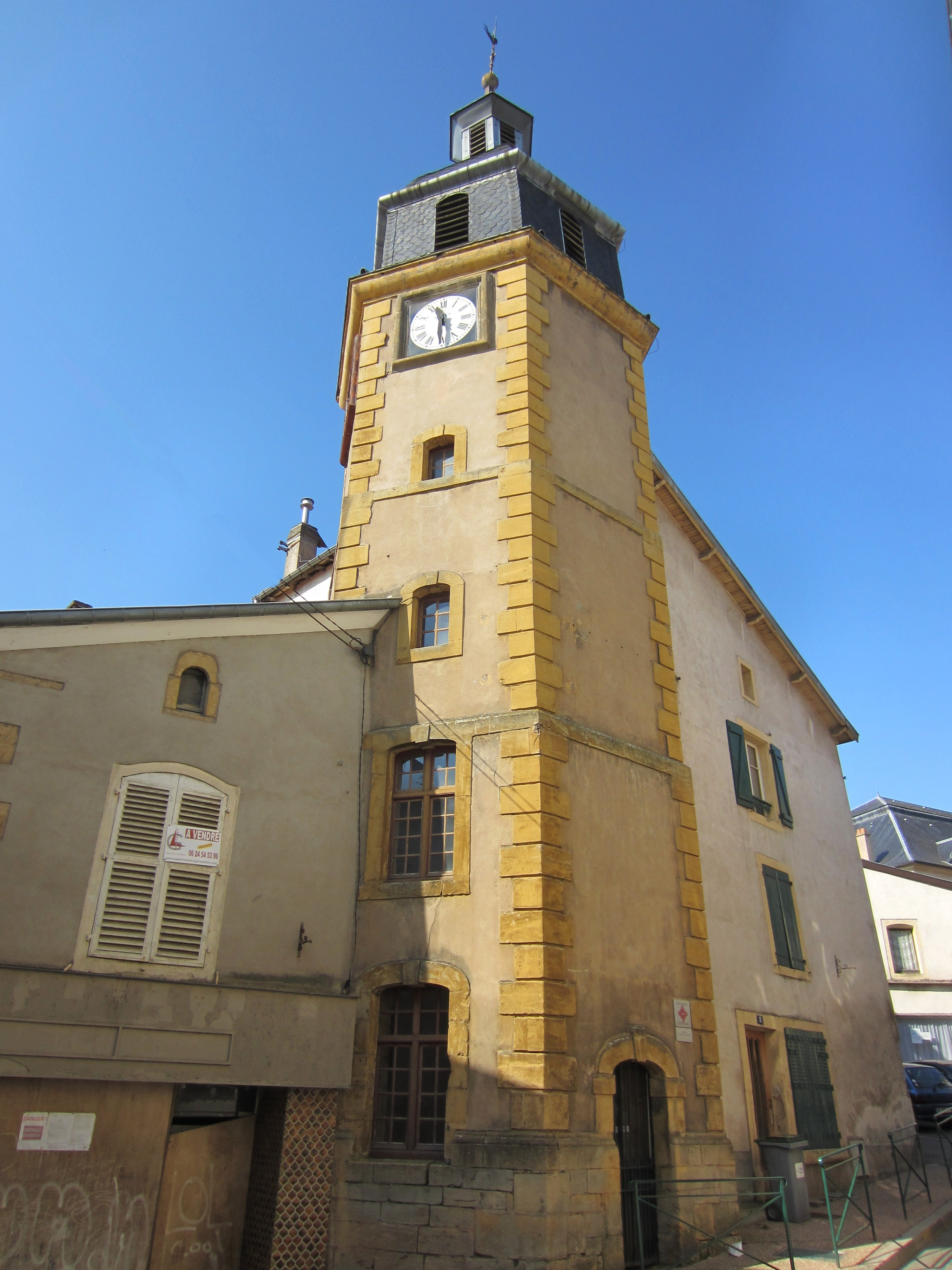 Description le beffroi de Briey Date26 September 2011Sourcemon appareil photoAuthorAimelaimePermission (Reusing this file) le beffroi de Briey